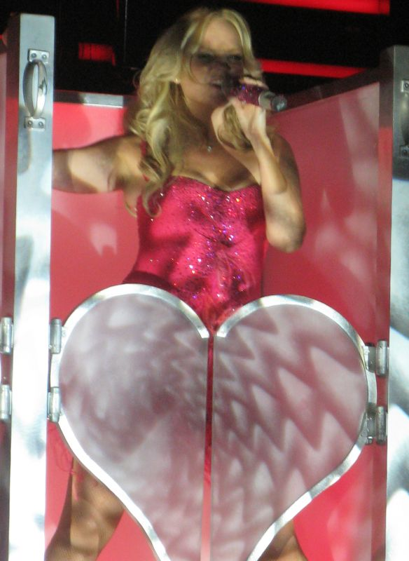 Baby Spice from LV Concert